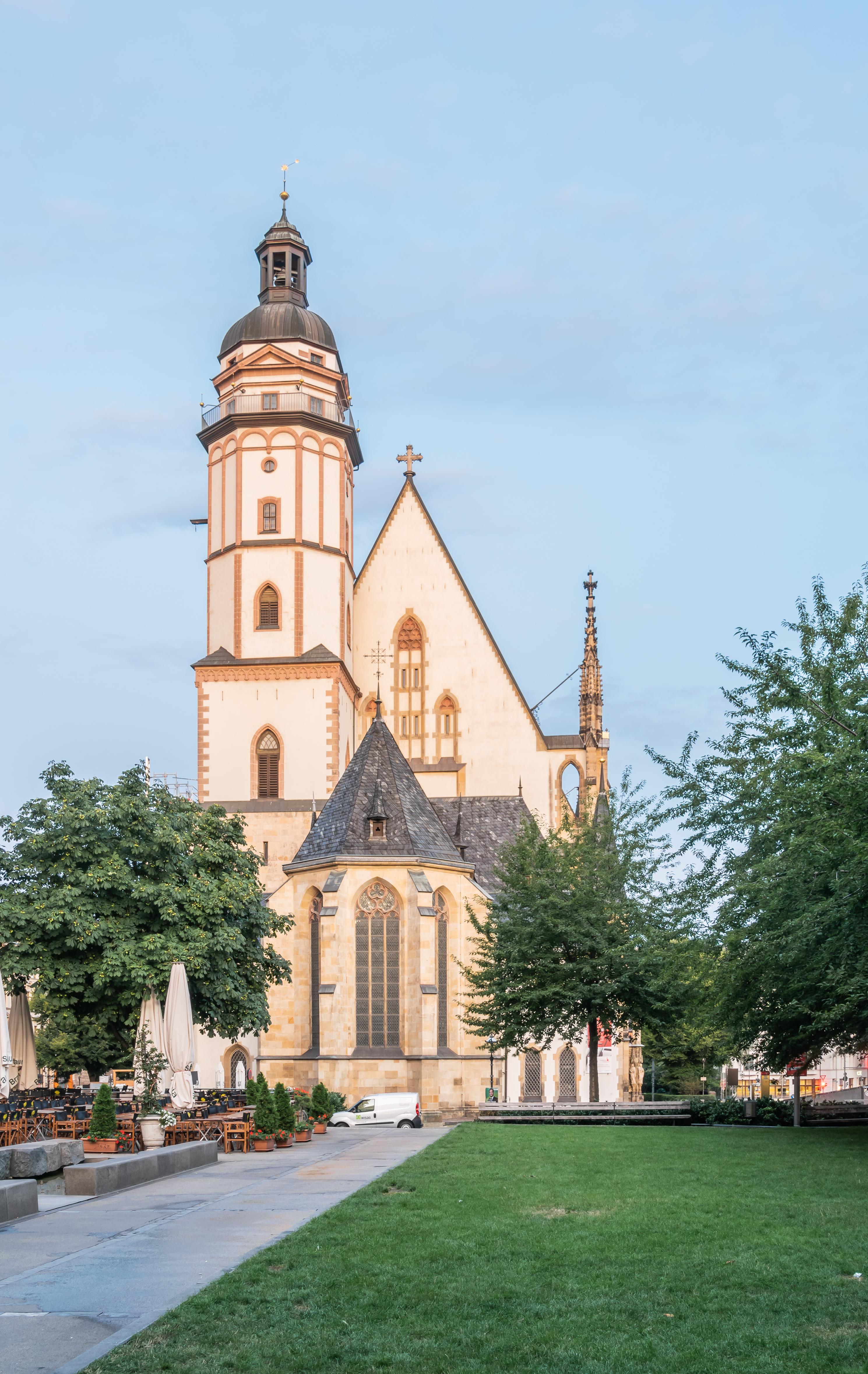 Eastern facade of the Saint Thomas church in Leipzig, Saxony, Germany